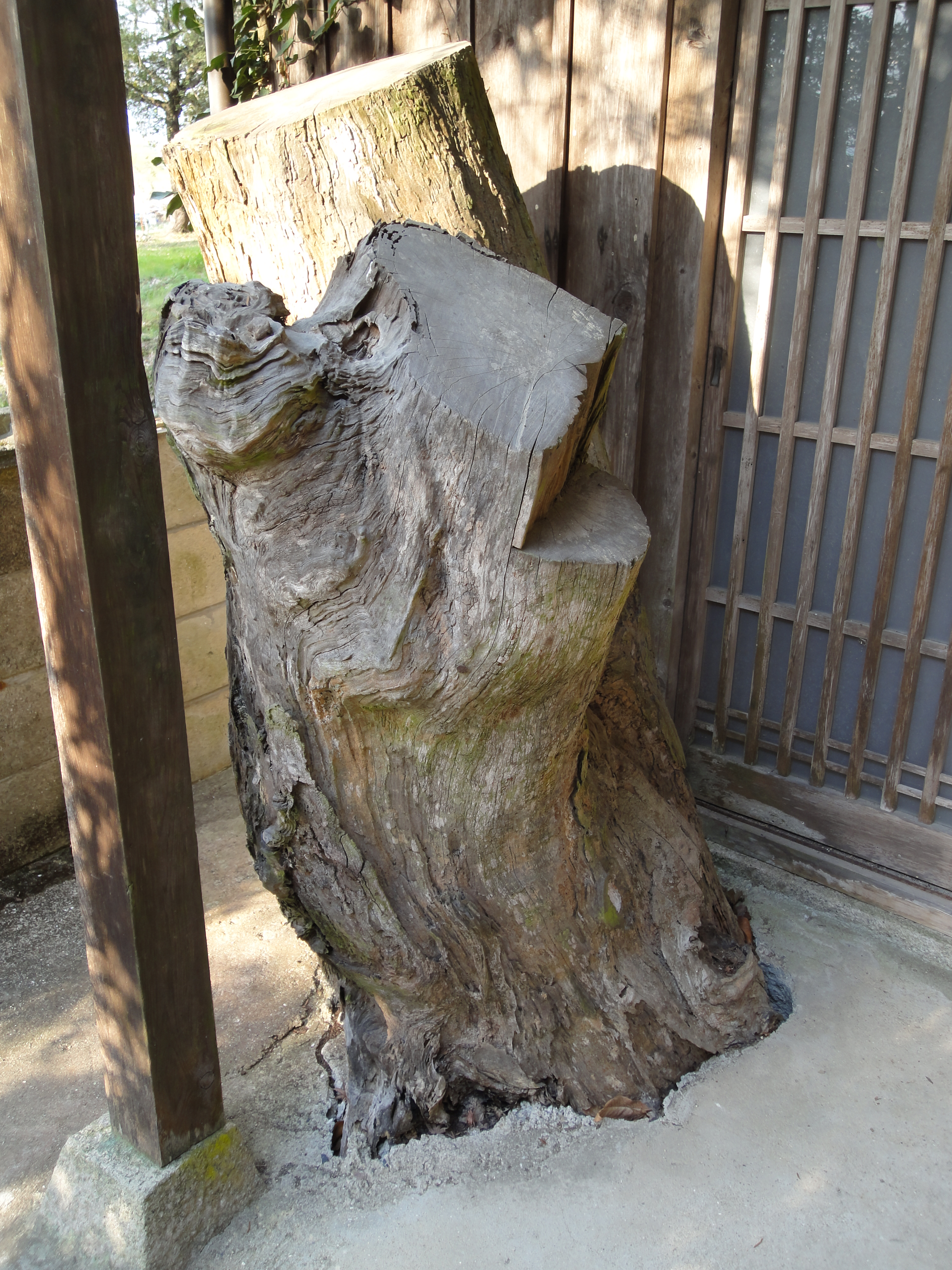 Stump of Tarachine no Sakura in Karube Jinja, Soja, Okayama pref., Japan.